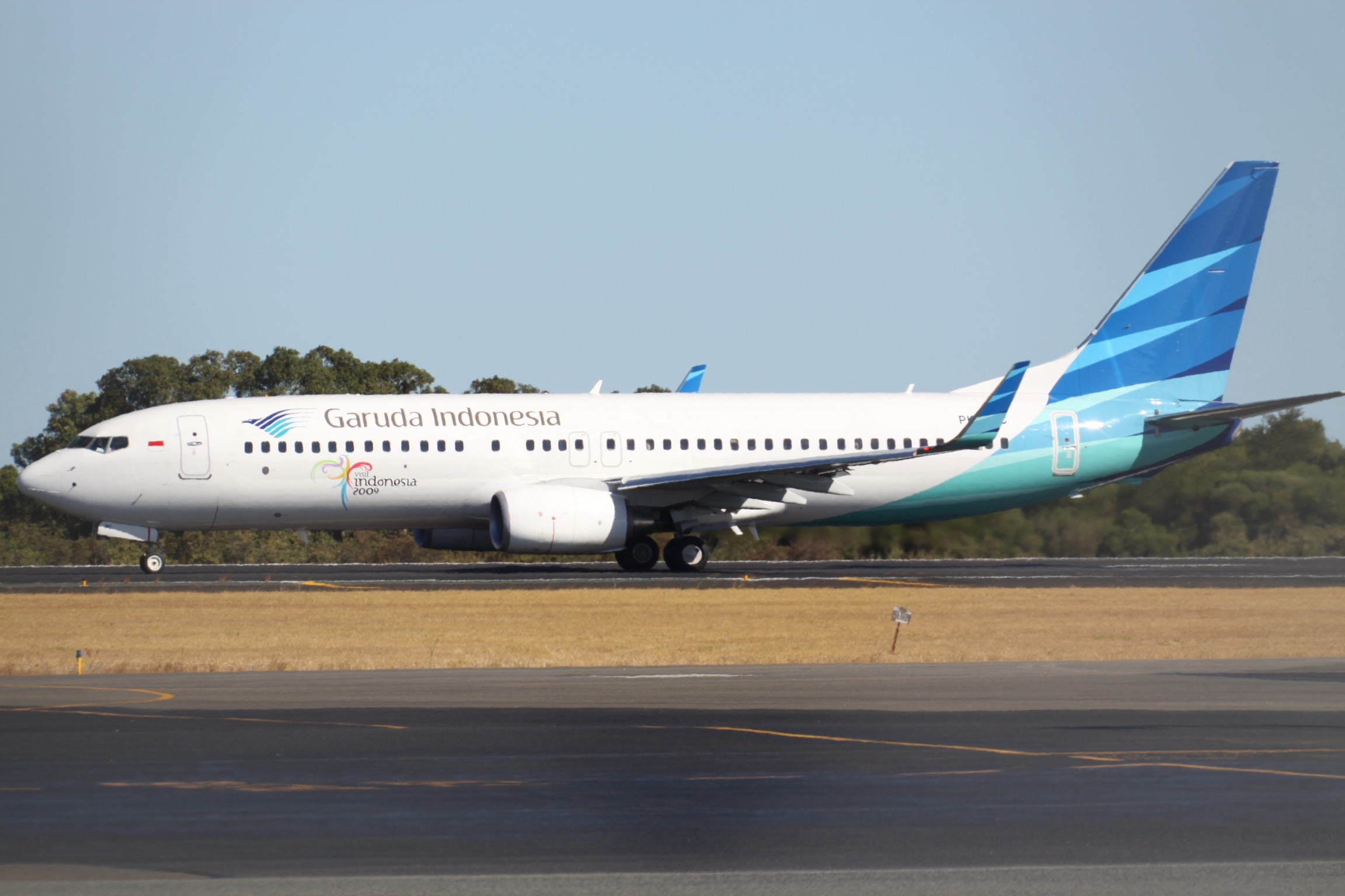 At Perth